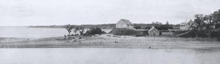 Photograph, Hudson's Bay Co. post, Metabetchouan River, Blue Point, Lac St. Jean region, QC, about 1890, Silver salts on paper mounted on card - Gelatin silver process 11.5 x 19.4 cm